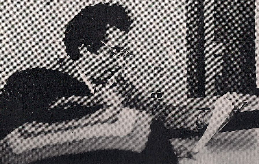 Hermann Steinthal giving a lesson around 1980